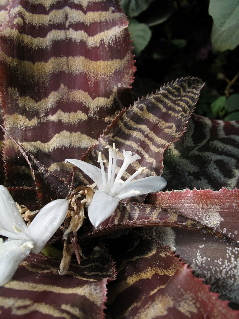 Cryptanthus fosterianus in cultivation at the Botanical Garden of Heidelberg, Germany.